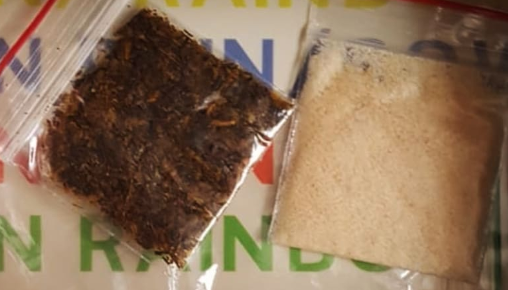 There are two bags, one contains a changa 1:1 mixture, another DMT freebase.